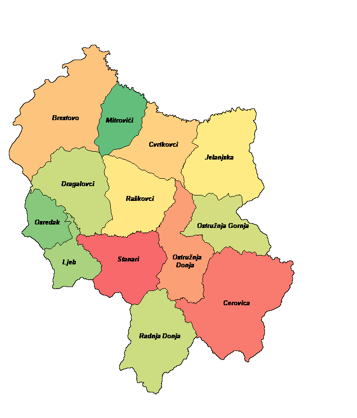 Stanari